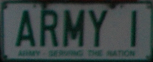 The official limousine of Lieutenant General Peter Leahy, Chief of Army at the 2008 National Anzac Day service, Australian War Memorial, Canberra.